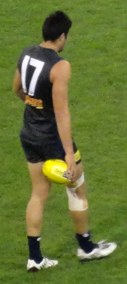 Setanta Ó hAilpín in action. Round 24, 2011.